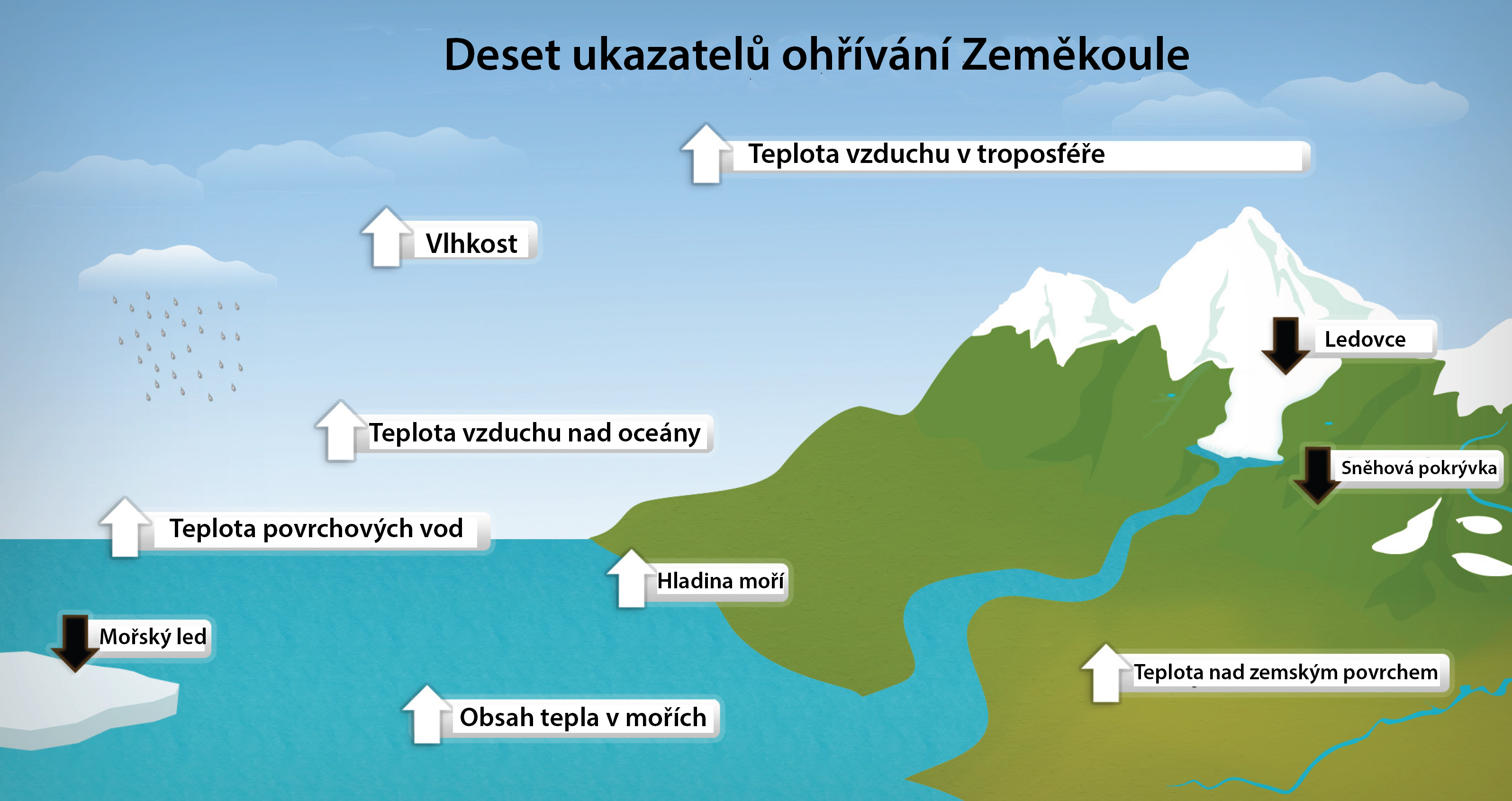 This diagram shows ten indicators of global warming: Seven of these indicators would be expected to increase in a warming world. These are: airearen tenperatura gainazaletik gertu(troposphere) Specific humidity Ocean heat content Sea level Sea-surface temperature Temperature over the oceans Temperature over the land Observations show that these 7 indicators are, in fact, increasing. The following three indicators would be expected to decrease in a warming world. These are: Snow cover (March-April, Northern Hemisphere) Glaciers (glacier mass balance) Sea-ice (September Arctic sea-ice extent) Observations show that these 3 indicators are, in fact, decreasing. From page 2 of the cited public-domain source: "A comprehensive review of key climate indicators confirms the world is warming and the past decade was the warmest on record. More than 300 scientists from 48 countries analyzed data on 37 climate indicators, including sea ice, glaciers and air temperatures. A more detailed review of 10 of these indicators, selected because they are clearly and directly related to surface temperatures, all tell the same story: global warming is undeniable. For example, the surface air temperature record is compiled from weather stations around the world, and analyses of those temperatures from four different institutions show an unmistakable upward trend across the globe. But even without those measurements, nine other major indicators of climate change agree: the earth is growing warmer and has been for more than three decades. A warmer climate means higher sea level, humidity and temperatures in the air and ocean. A warmer climate also means less snow cover, melting Arctic sea ice and shrinking glaciers." See also effects of global warming.